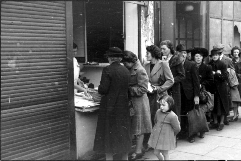 Britain Queues For Food- Rationing and Food Shortages in Wartime, London, England, UK, 1945 Men, women and children queue outside a fishmonger, somewhere in London, to buy some fish. The shop appears to be operating like a kiosk: it is all shuttered up, apart from a window from which the fish is sold.